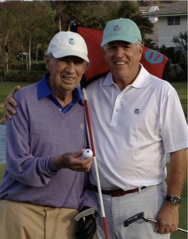 Twenty foot putt seals Shootout win for Safer and Jack Frazee Other information email is being sent